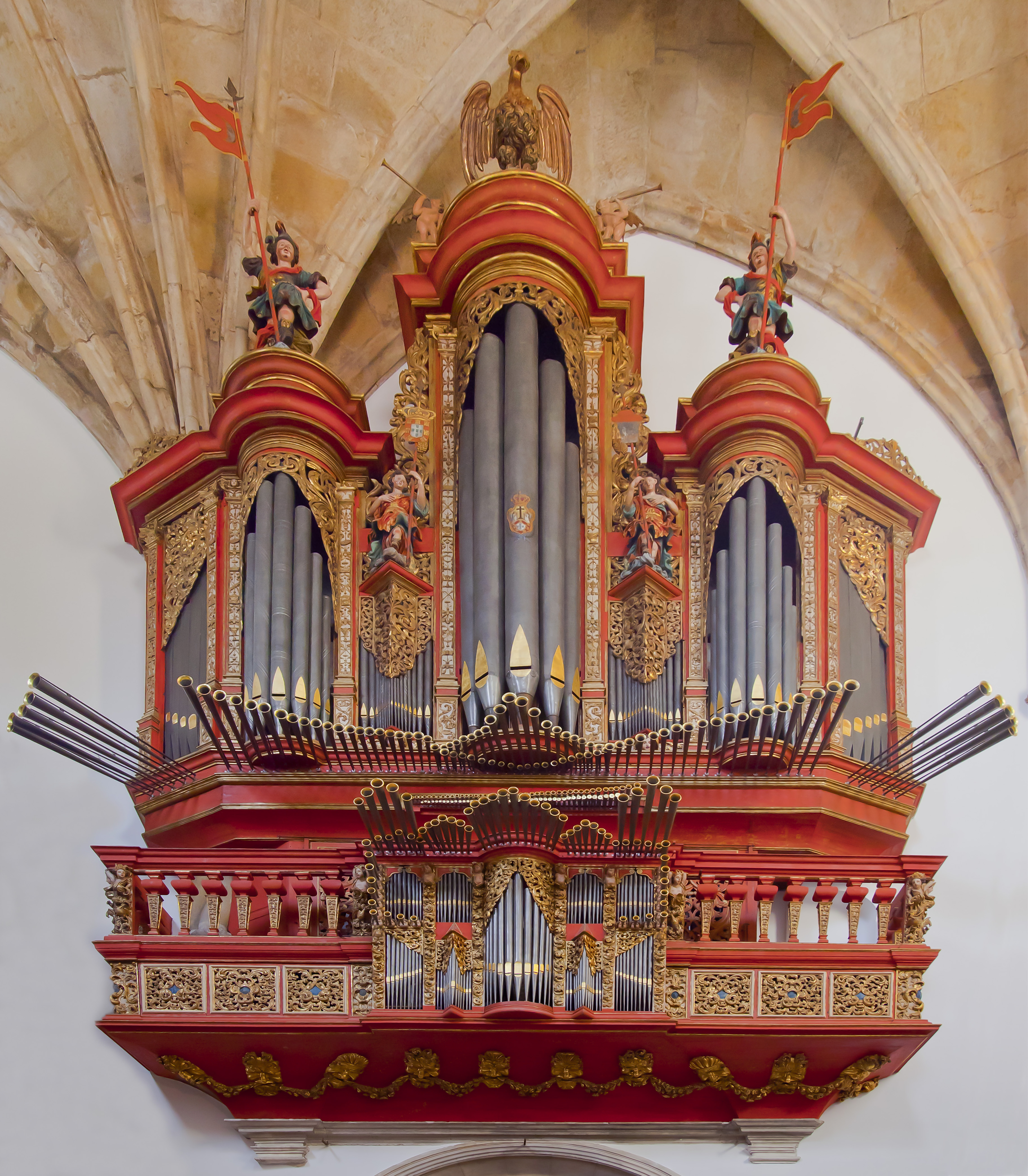 Baroque pipe organ of the XVIII century by the Spanish Gómez Herrera, Monastery of Santa Cruz, Coimbra, Portugal